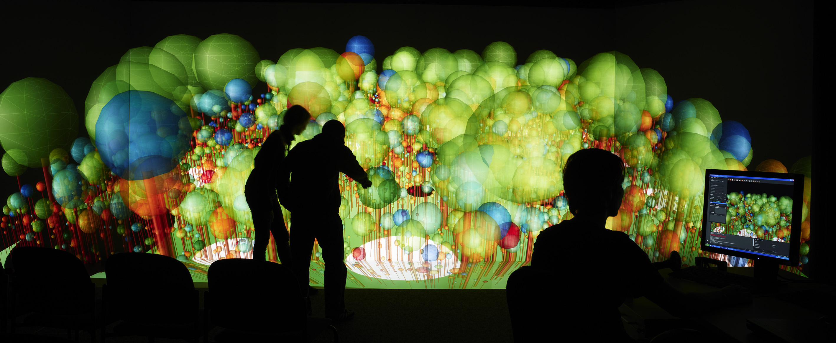 3D-Projektion im Visualisierungszentrum des UFZ/Waldmodell/Mit Simulationsmodellen können Wissenschaftler die Rolle der Wälder in Sachen Klimaentwicklung entscheidend voran bringen.